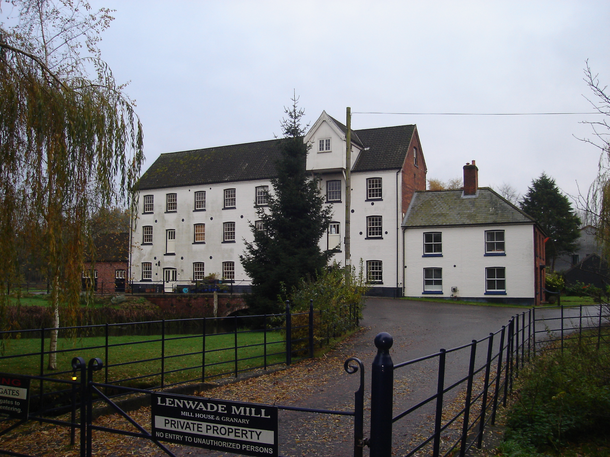 Photo of Lenwade Mill, Lenwade, Norfolk